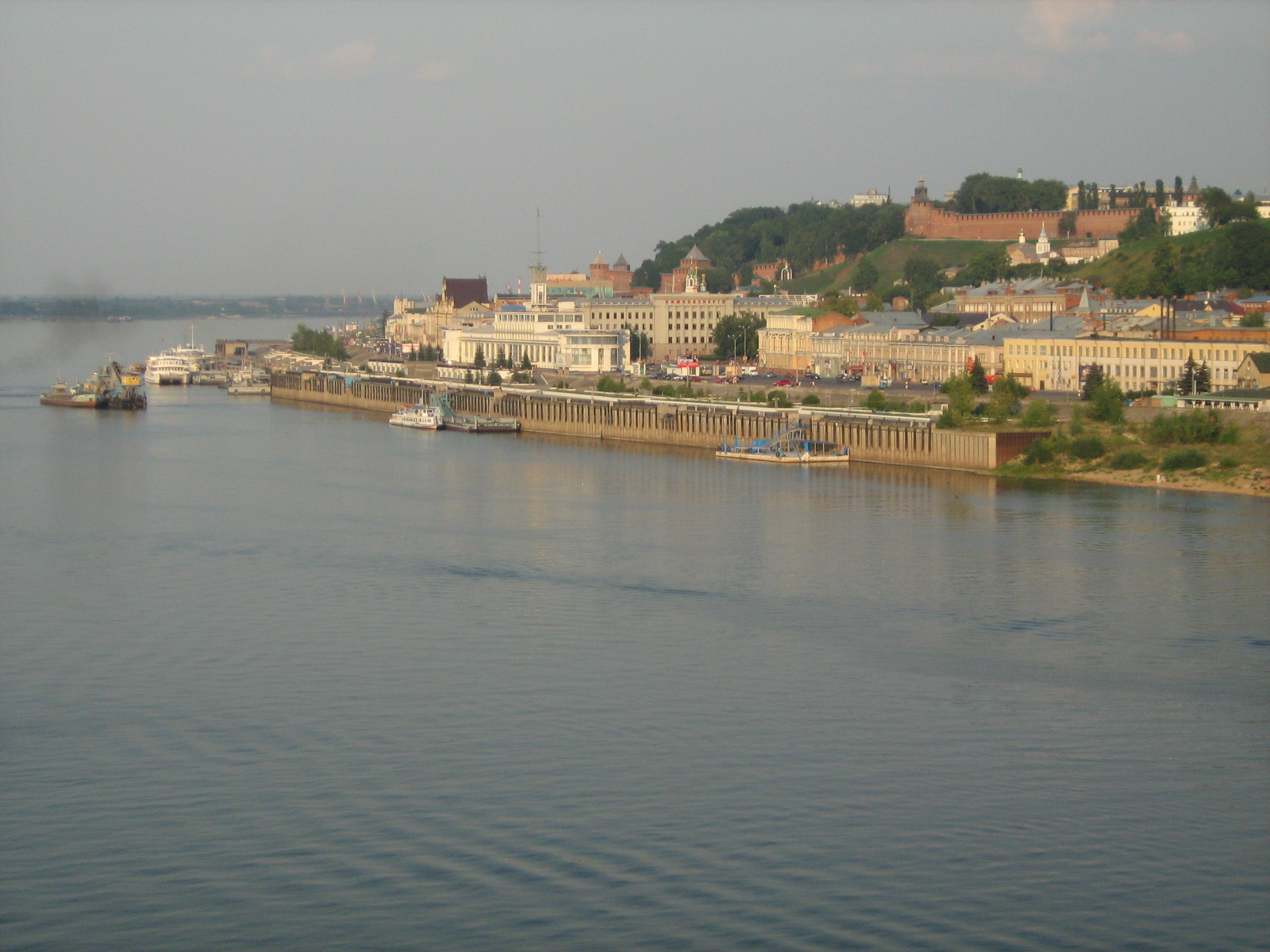 The right bank of the Oka in Nizhny Novgorod, near its fall in the Volga. The ship-like Rechnoy Vokzal (Riverboat Terminal) is facing the water, and the walls of the Kremlin can be well seen on the hill beyond.